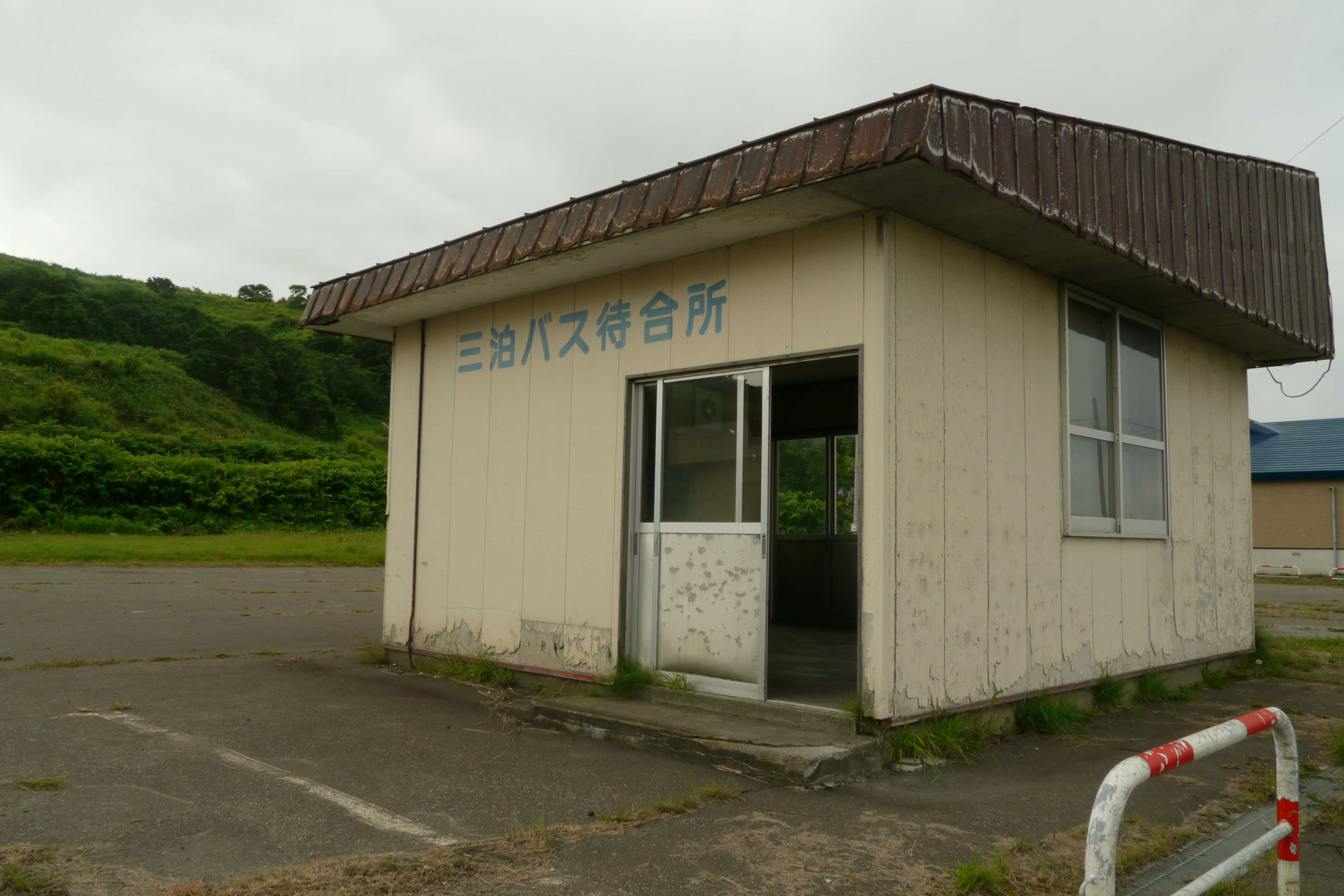 The remains of Sandomari Station of the Haboro Line in Hokkaido, Japan. Photo taken on July 26, 2011.